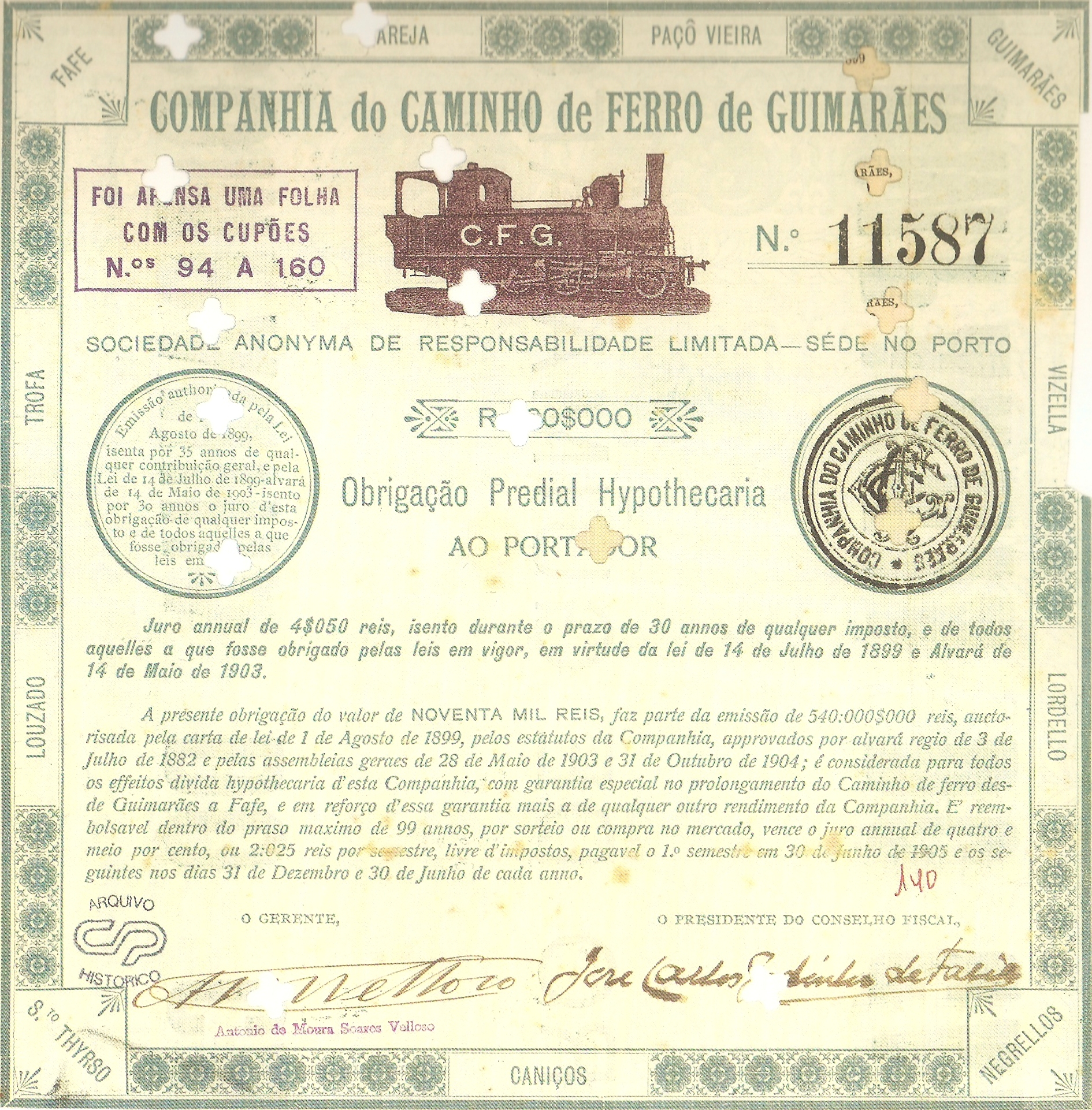 Bond certificate of the CCFG - Companhia do Caminho de Ferro de Guimarães (Guimarães Railway Company), in Portugal, that was launched to finance the extension of the Guimarães Railway to the town of Fafe, and to buy rolling stock.